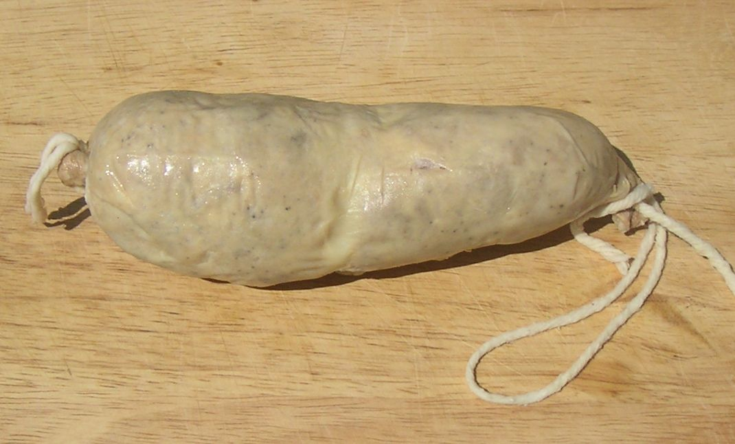 A kind of "botifarra" catalane named "botifarra del perol".